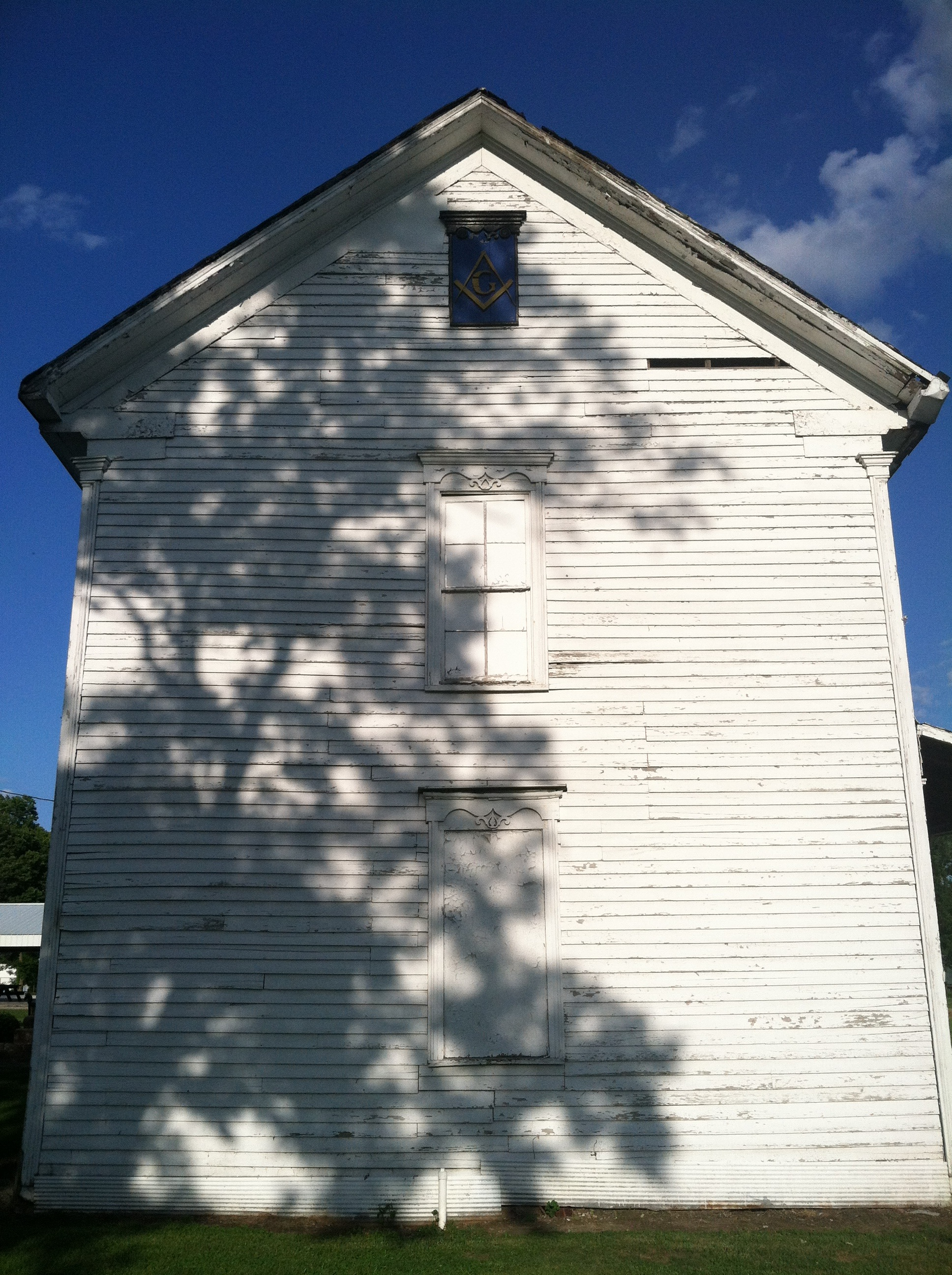 Harrisburg masonic lodge and school house west side.